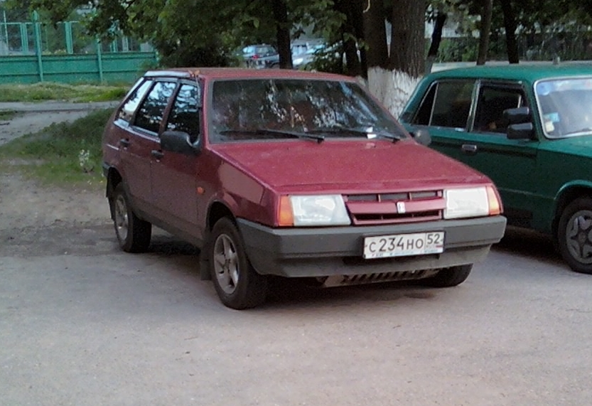 LADA Samara photographed in Nizhny Novgorod, Russia